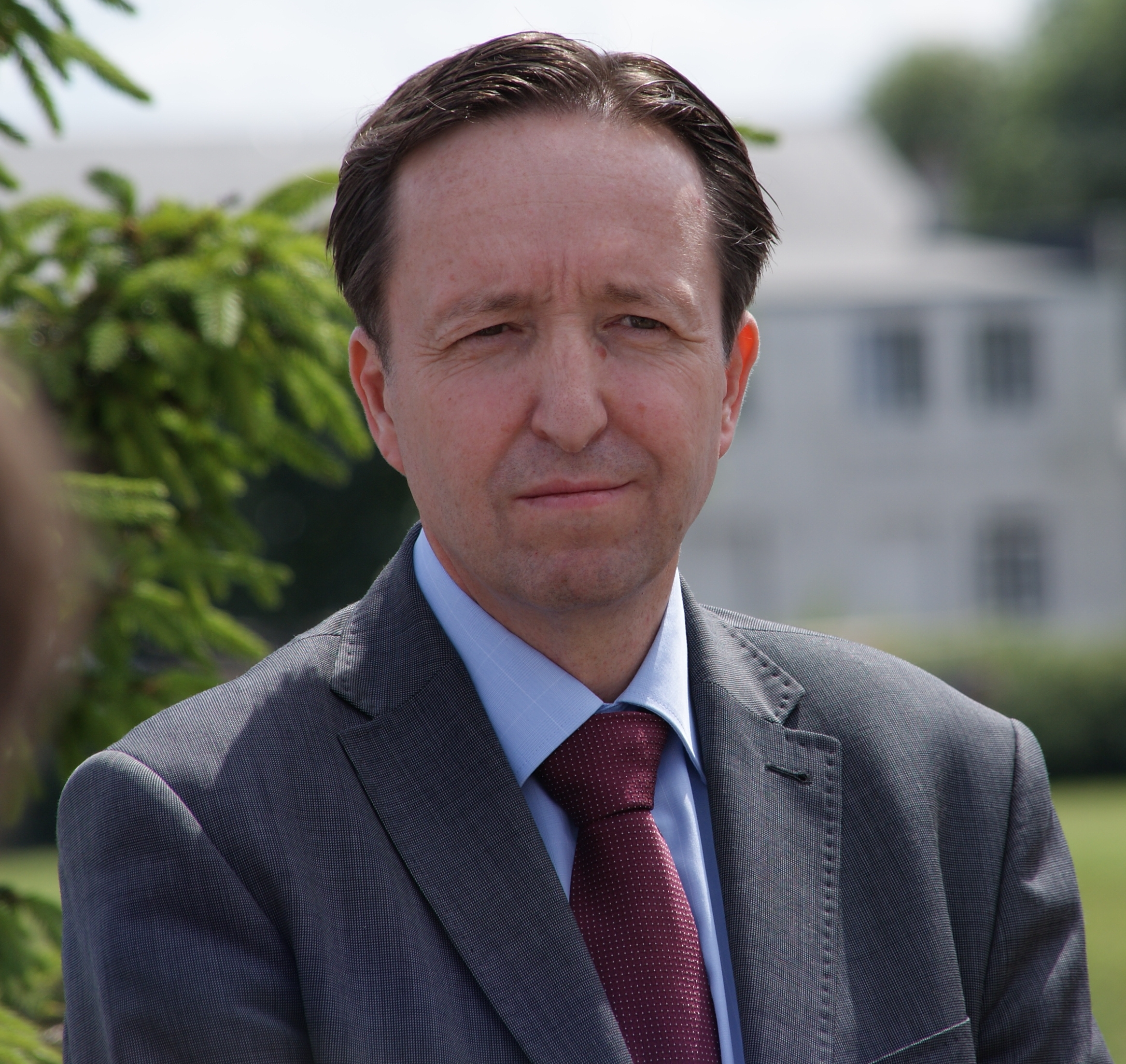 Witold Pahl - a member of the Polish Parlament from Gorzów Wlkp.